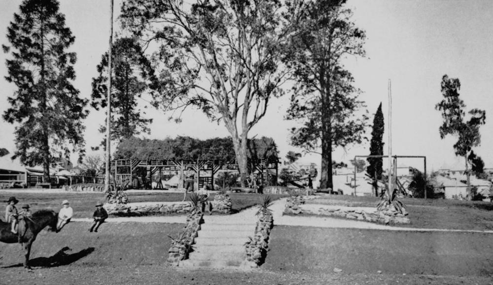 Playground at Ithaca, Red Hill, 1918 Children's playground set in a park. A set of steps, decorated with stone edgings, lead to the playground and a stone wall borders the entrance. There is a small child riding a pony in the foreground and several children sitting around the area.